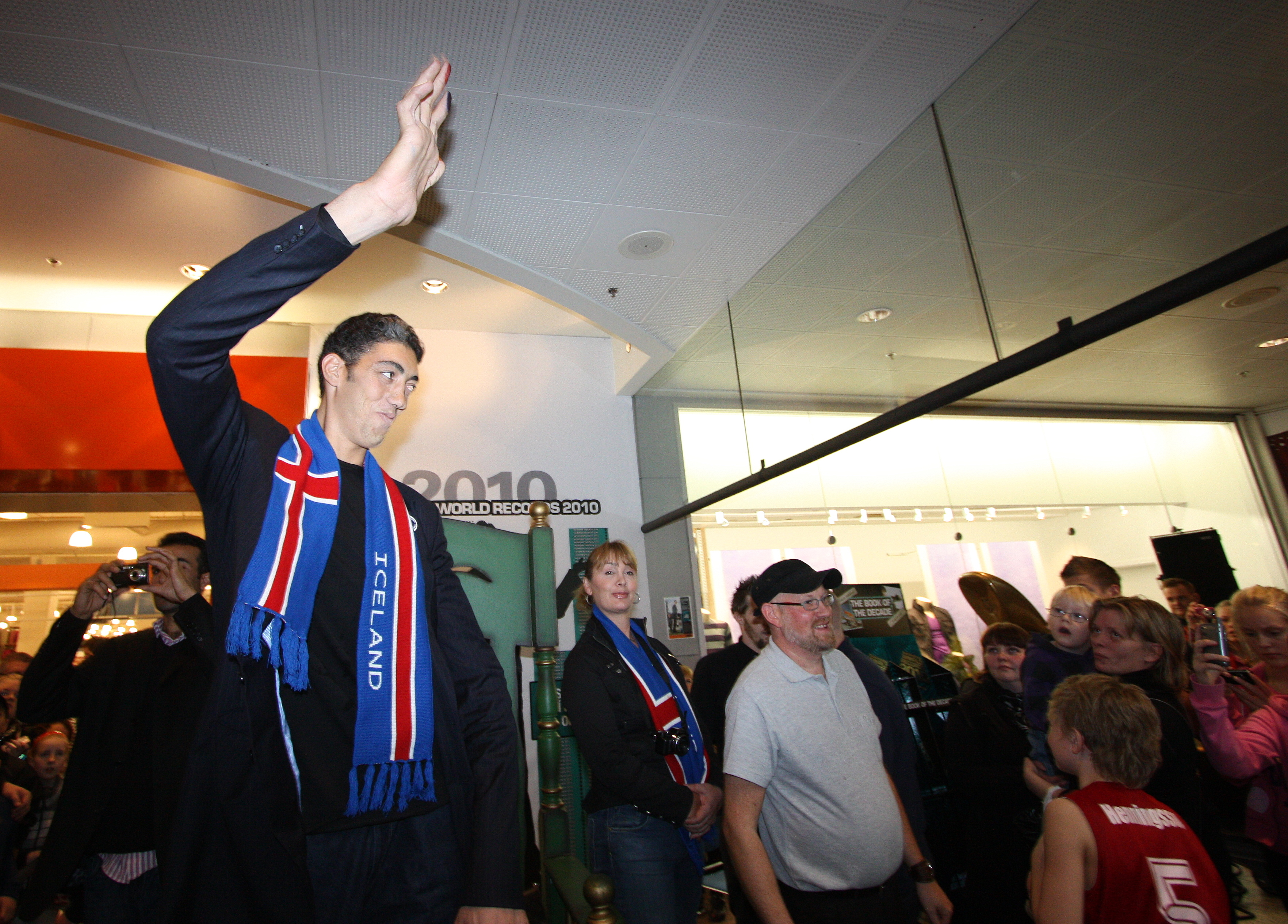 The tallest man in the world, Sultan Kosen was in on a short visit in Iceland where he met with the press and public as part of the launch for the 2010 edition of the Guinness Book of World Records.